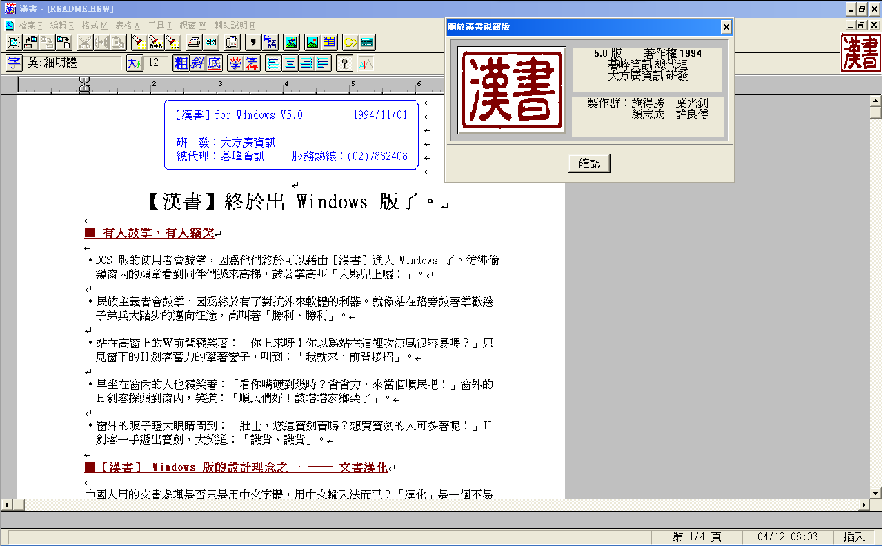 HE_V6_0_Win_WinHE